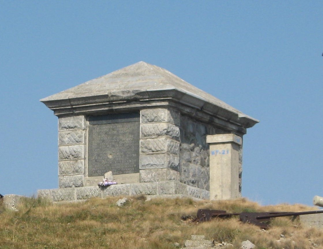 Mausoleom of Josif Pančić on Pančić`s peak (2017m), highest summit of Kopaonik.